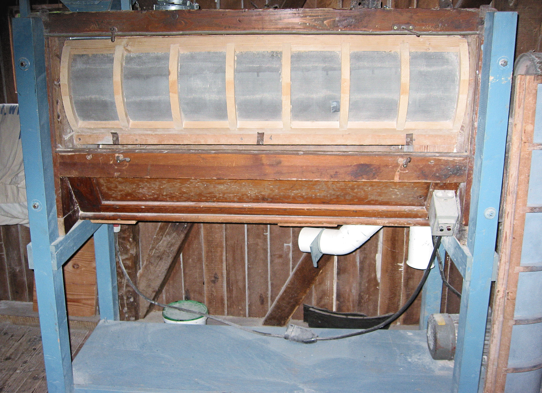 Sint Willebrordus molen, buil, Bakel, the Netherlands